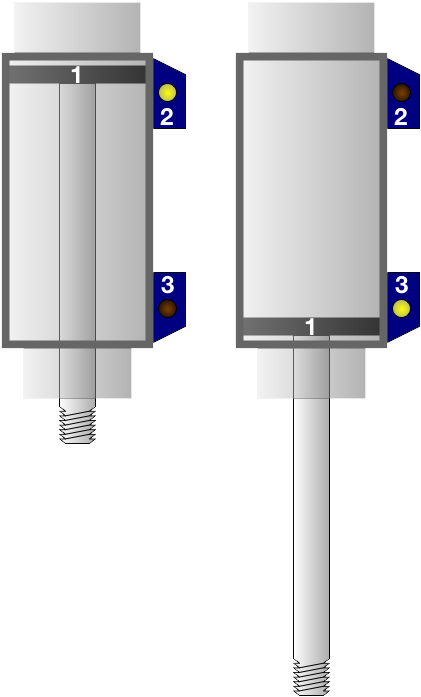 A pneumatic cylinder with Hall effect sensors attached to its outer wall to detect its extended and retracted positions. Magnetic piston Sensor is activated when the rod is retracted Sensor is activated when the rod is extended